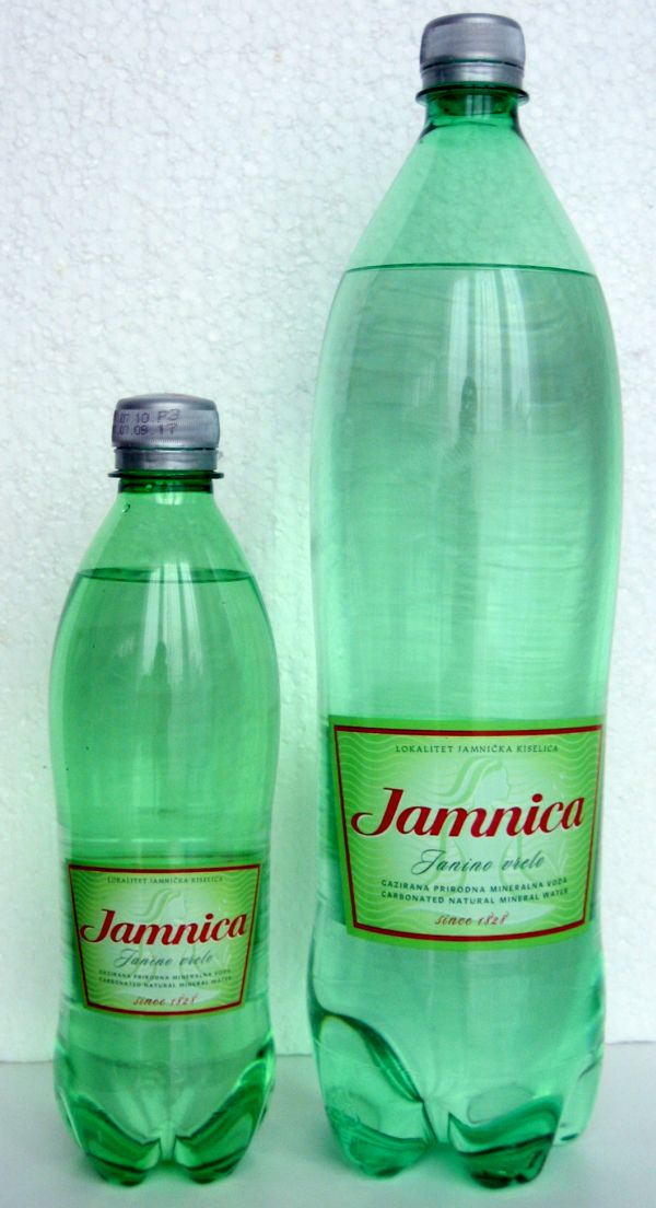 Jamnica 1.5 and 0.5 liter PET bottle.